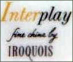 Iroquois China Company - Interplay - c.1955